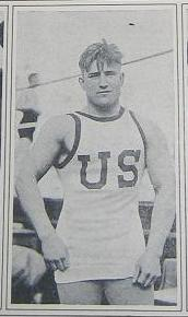 Photo of Ralph Parcaut at the 1919 Inter-Allied Games